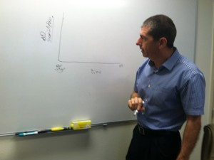 Dr. Michael Mullan describing how Brain Health Index works.